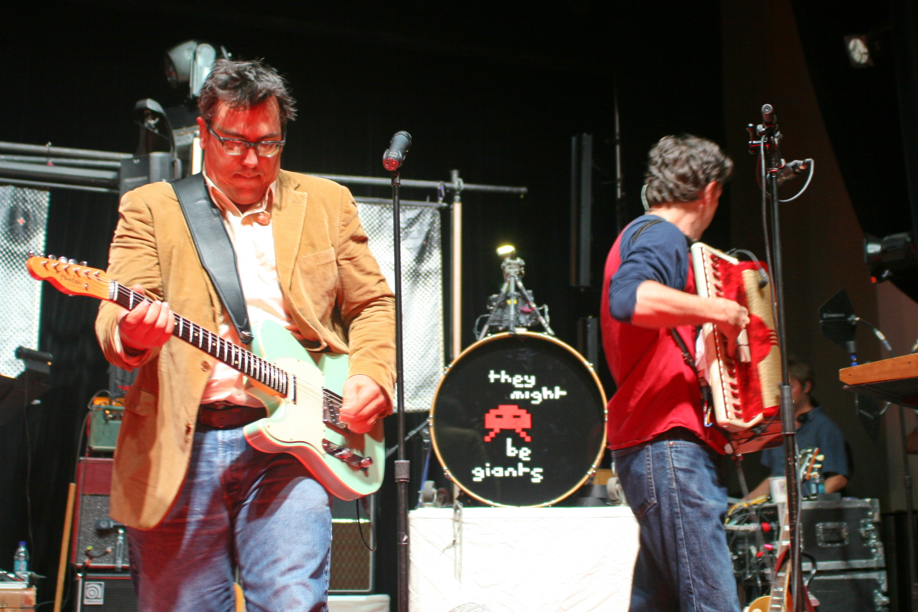 They Might Be Giants